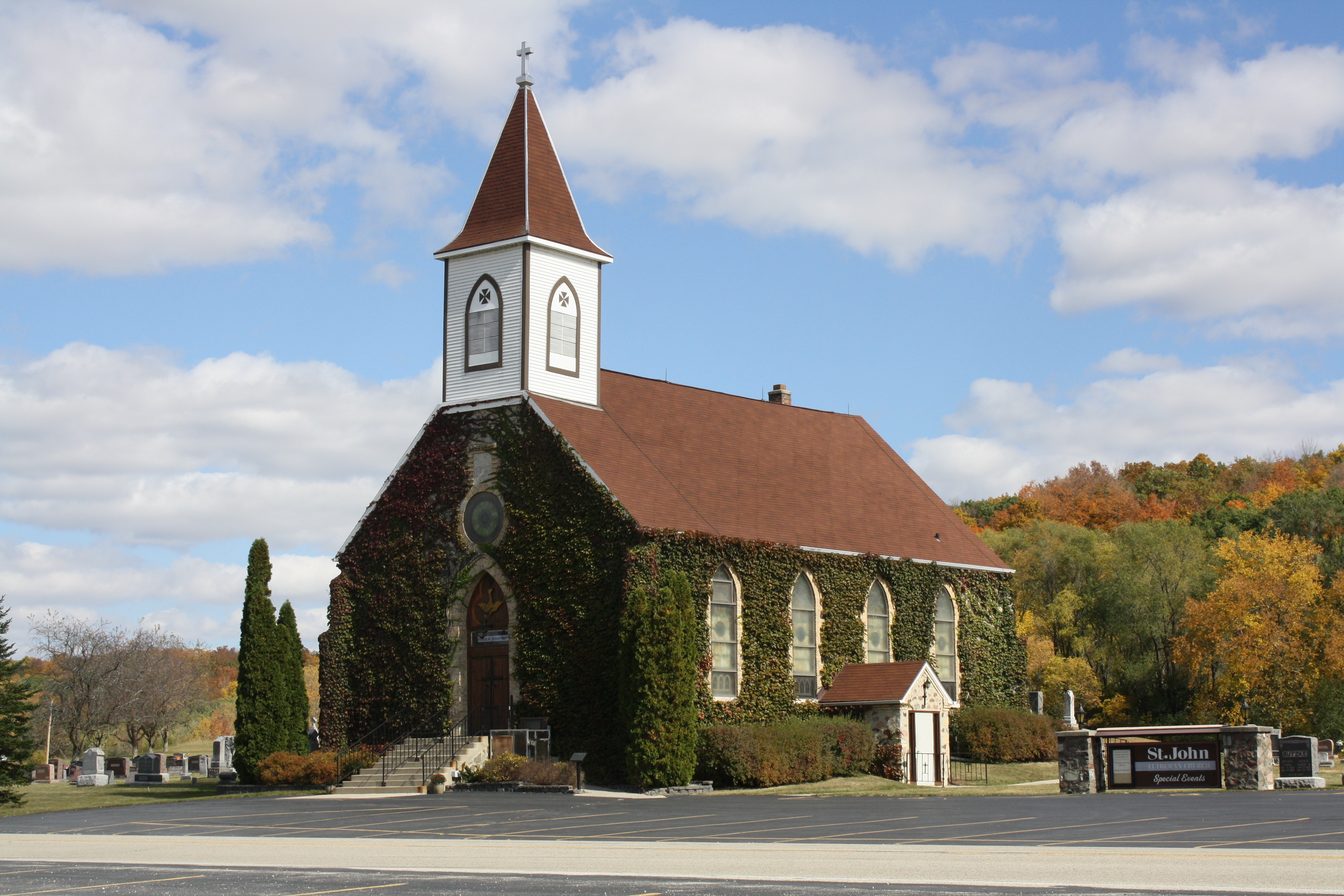 The Saint John Evangelical Lutheran Church in New Fane, Wisconsin in the United States. The church was built in 1870 and it is affiliated with the Lutheran Church-Missouri Synod. It is listed on the National Register of Historic Places.